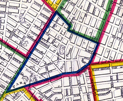 1831 Map showing the 6th Ward in New York City, location of the Five Points intersection.